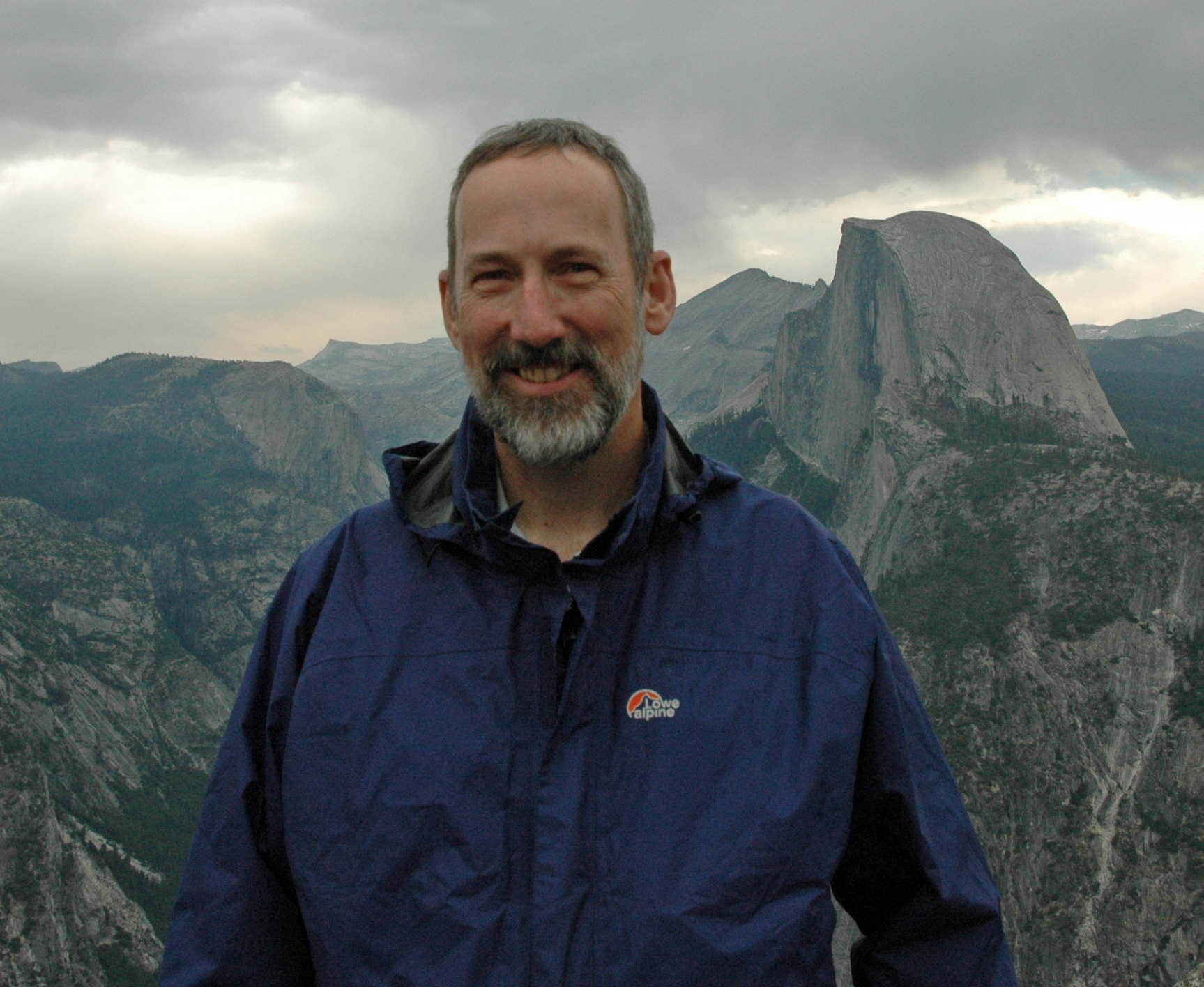 Portrait of Stephen Blackmore against a backdrop of the Yosemite mountains